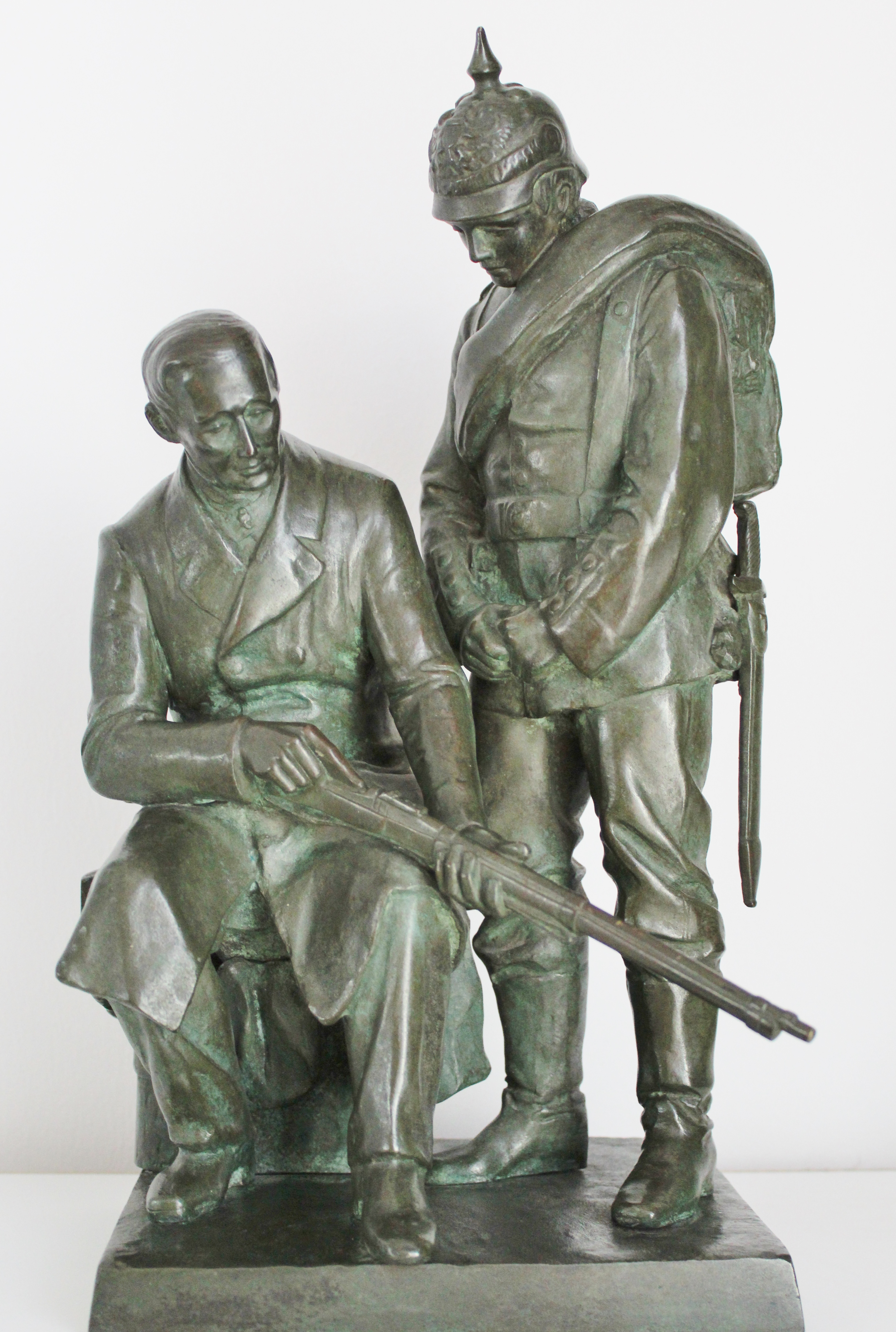 replica of Dreysemonument in Sömmerda, sculpted 1909 by Wilhelm Wandschneider